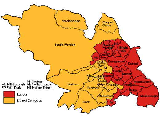 Ward map of Sheffield Council with political colouring for the 2003 election.